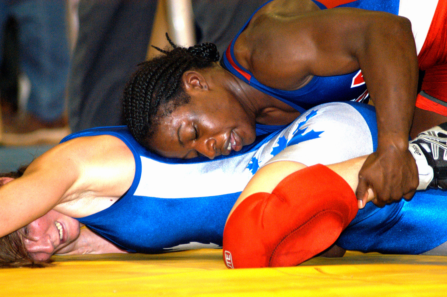 August 7, 2003 Pfc. Tina George keeps the pressure on Canada's Tonya Verbeek in the women's 121-pound freestyle wrestling finale of the 2003 Pan American Games.